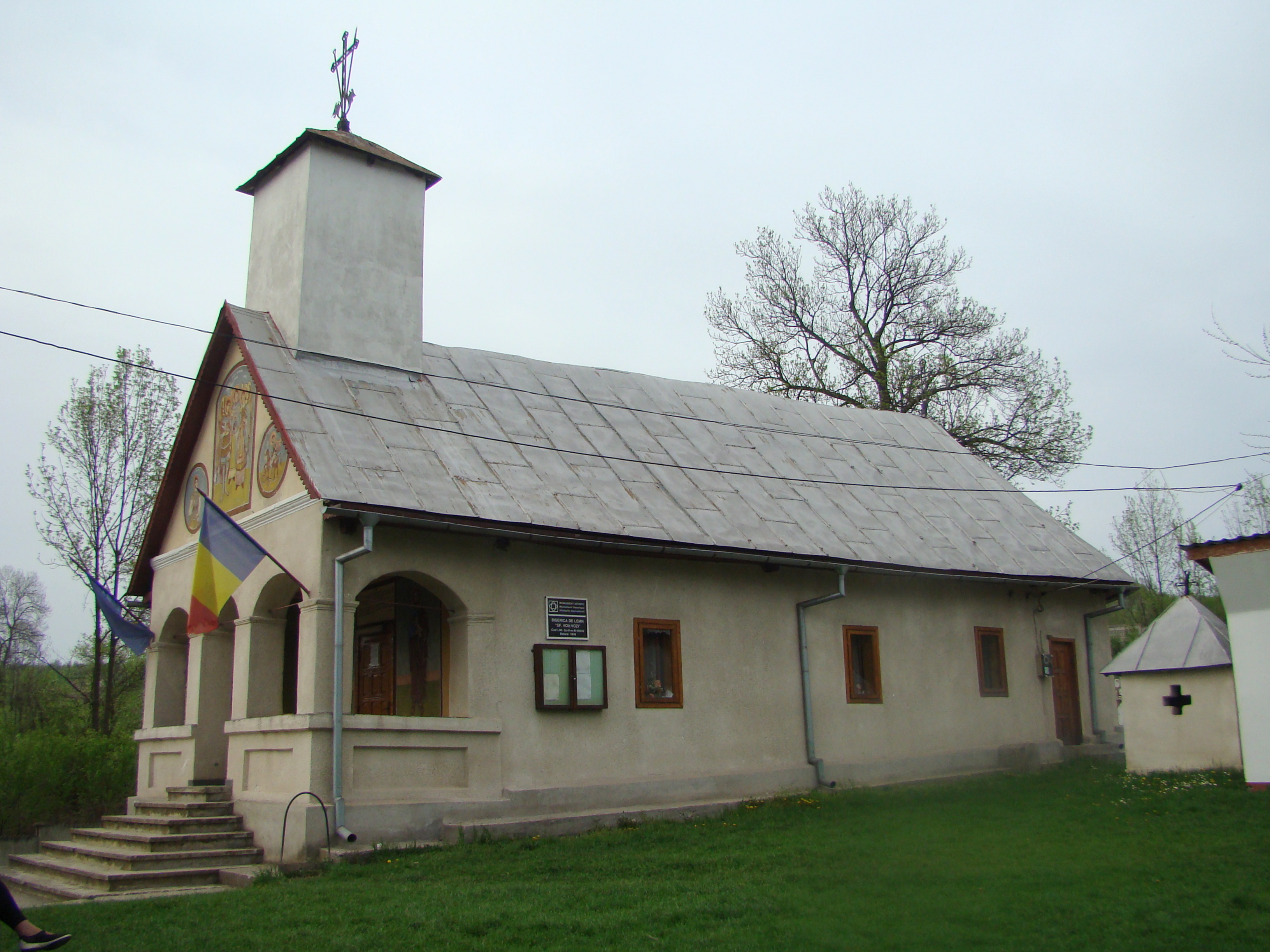 Wooden church in Motru (Leurda District), Gorj county, Romania